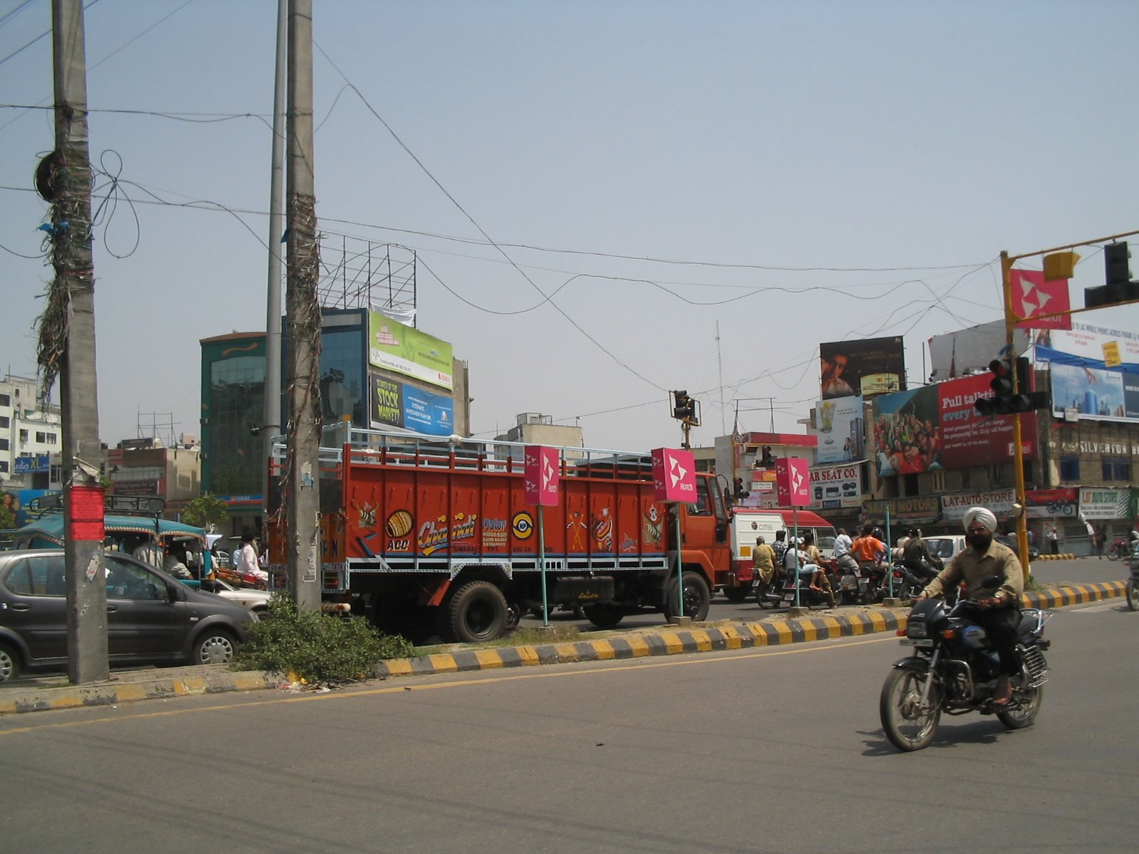 The BMC (British Motor Company) Chowk is one of the busiest roundabouts of Jalandhar. The roundabout has been replaced by traffic signals with countdown timers. The crossing is dotted with large hoardings.